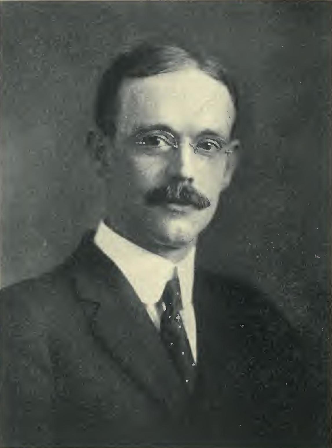 Library Journal 39 1914